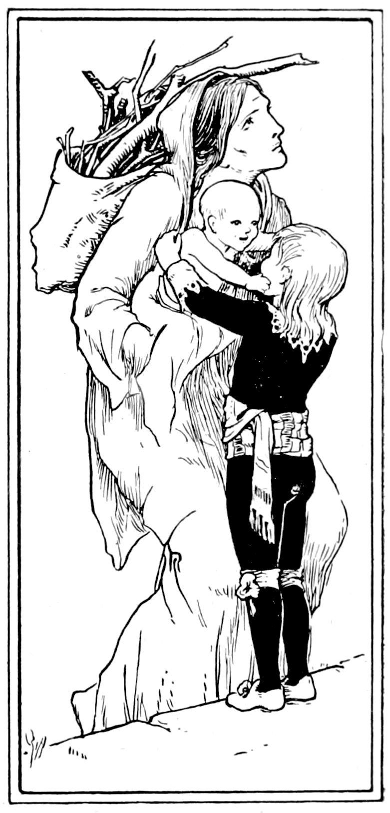 Scan illuatration on page of book in a series of fairy tales. A warning to children.